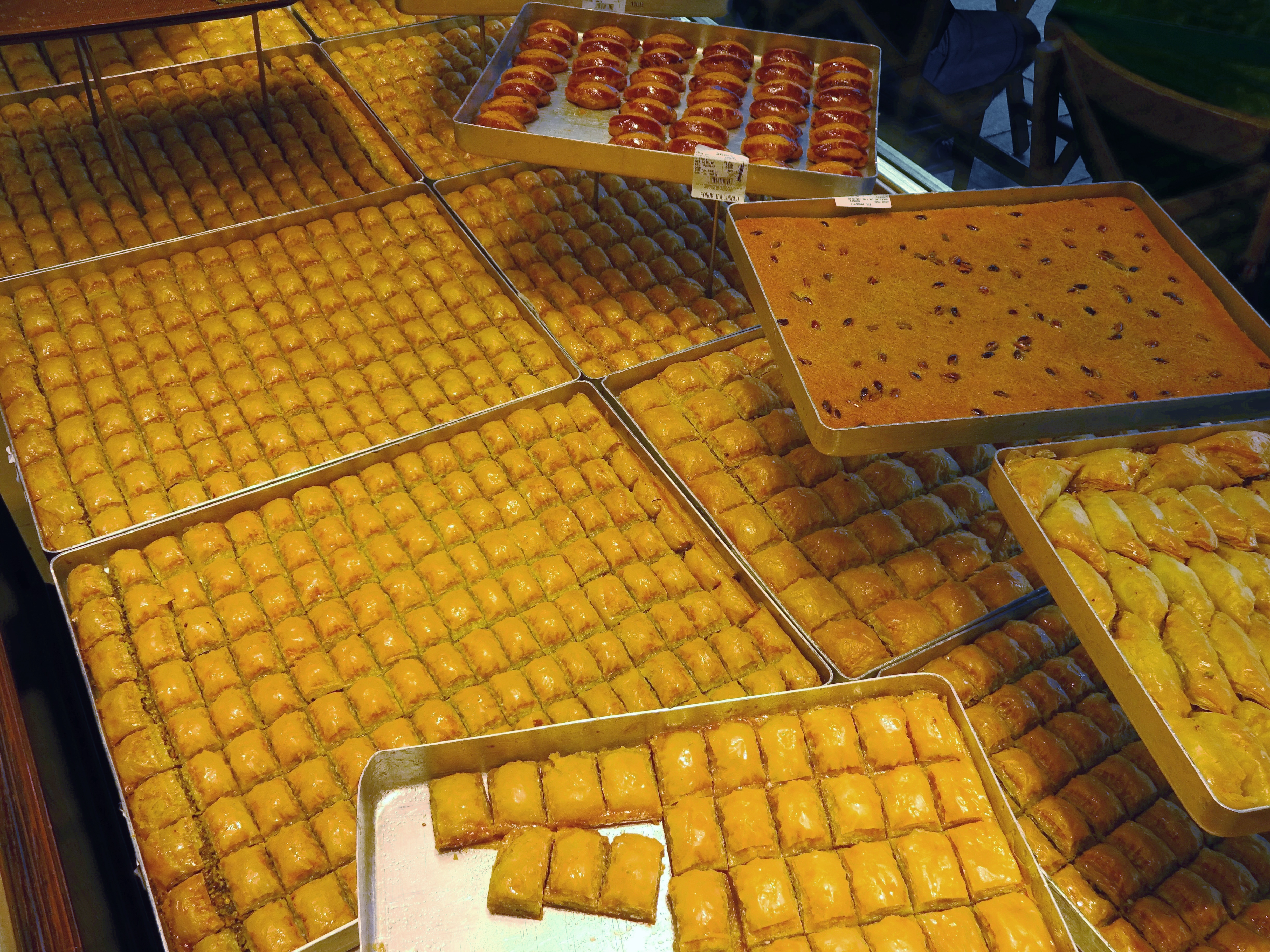 Sheets with different sweet dough particles that sells individually, or together as desired in tin cans. Photographed in a bakery in Taksim in Istanbul